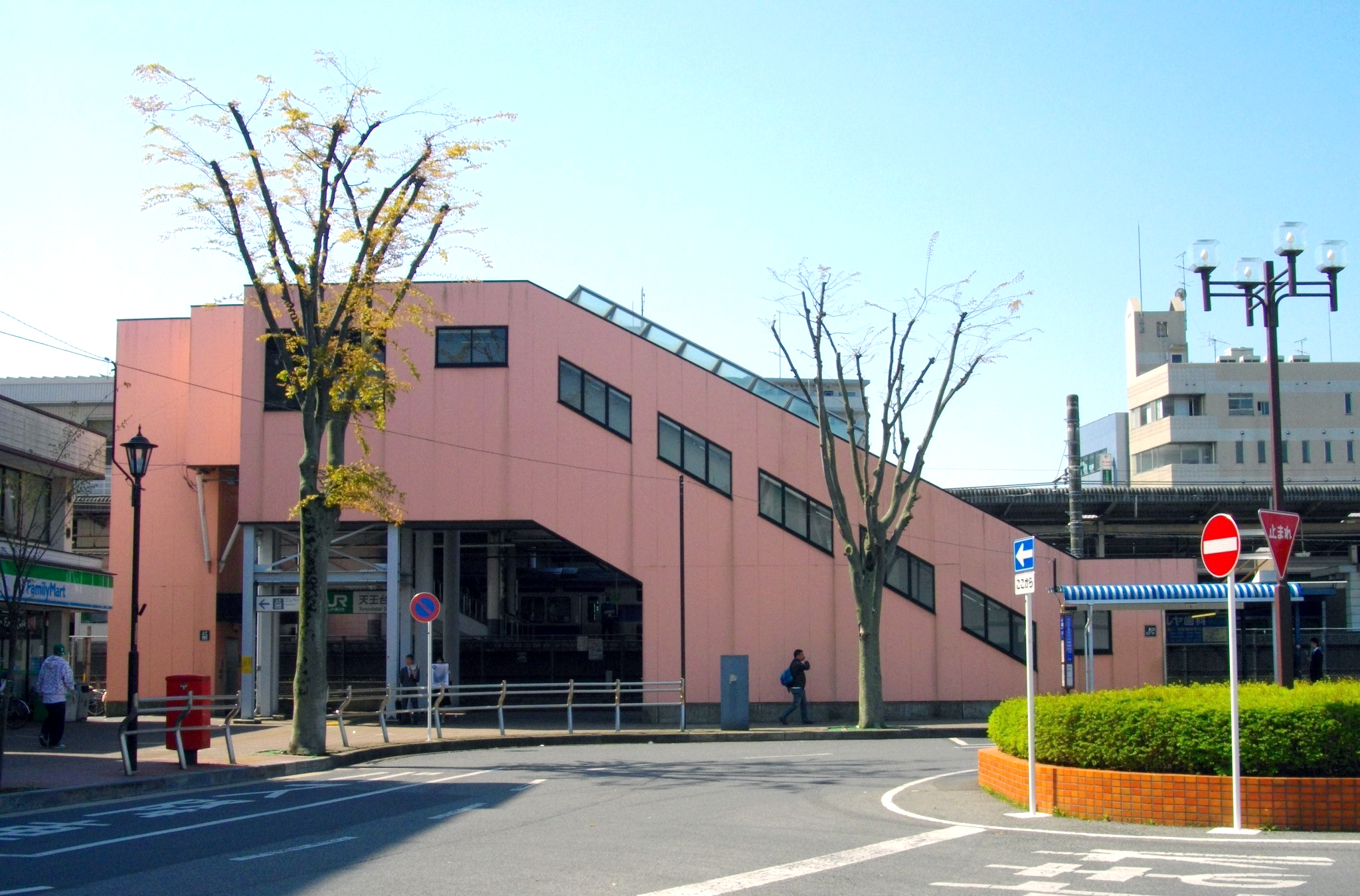 Tennodai Station North Exit